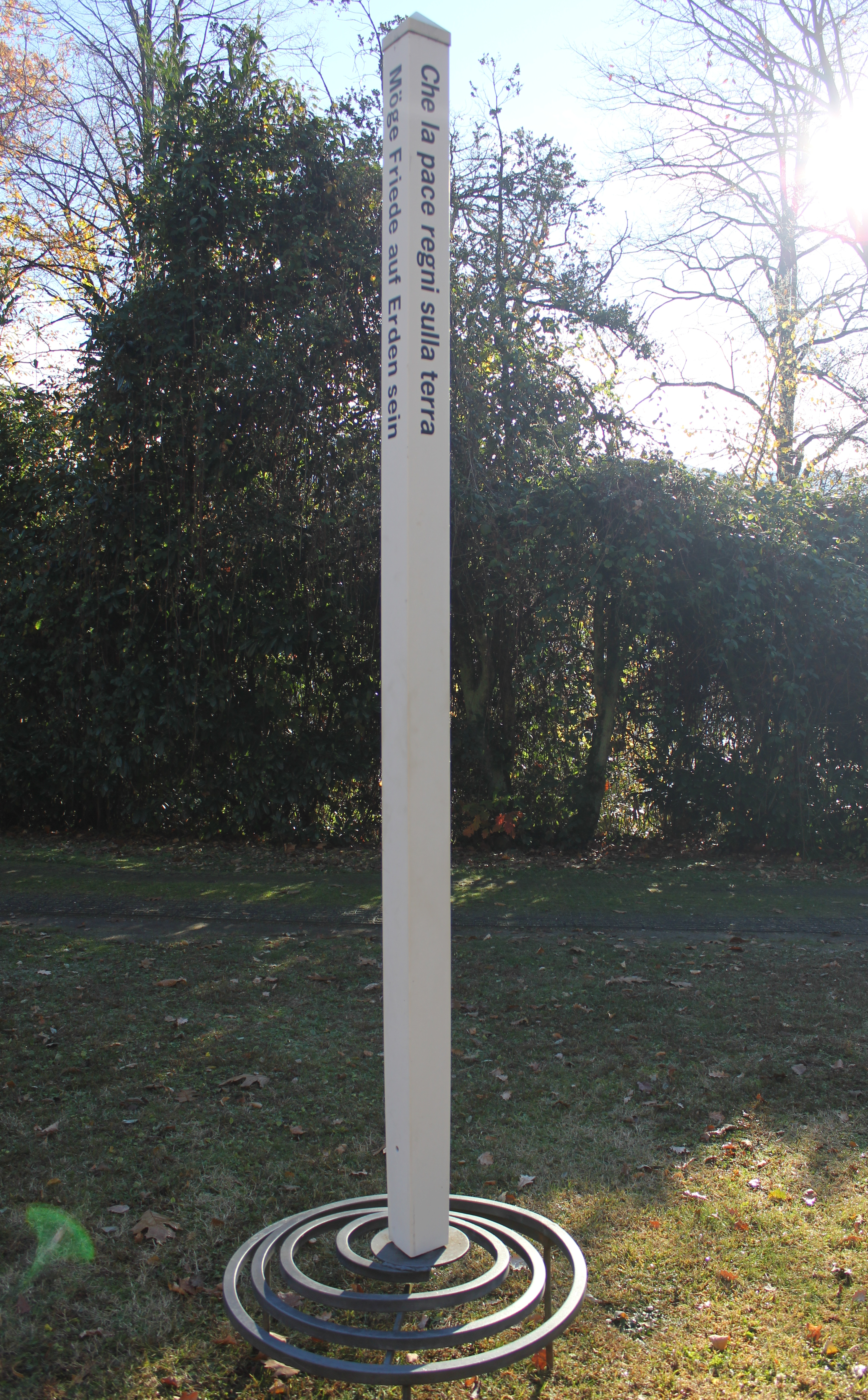 The peace pole on the Monte Verità above Ascona.